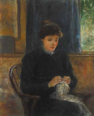 Lily Yeats at Bedford Park (portrait of Susan Mary (Lily) Yeats)